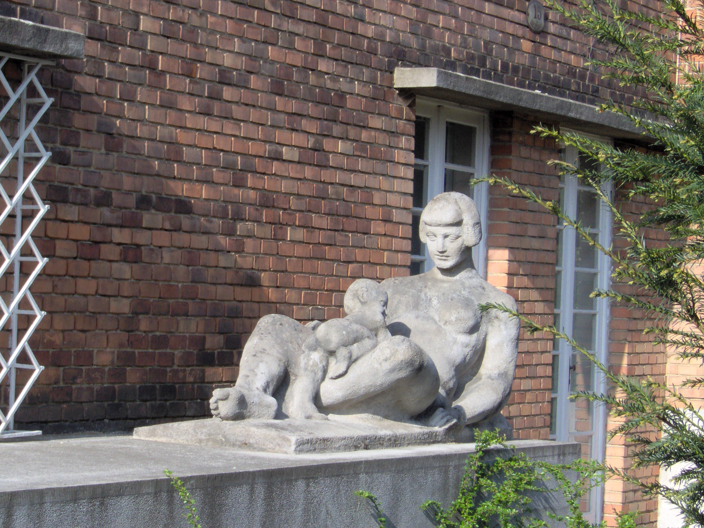 Own villa by Jindřich Kumpošt, Brno, Czech Republic